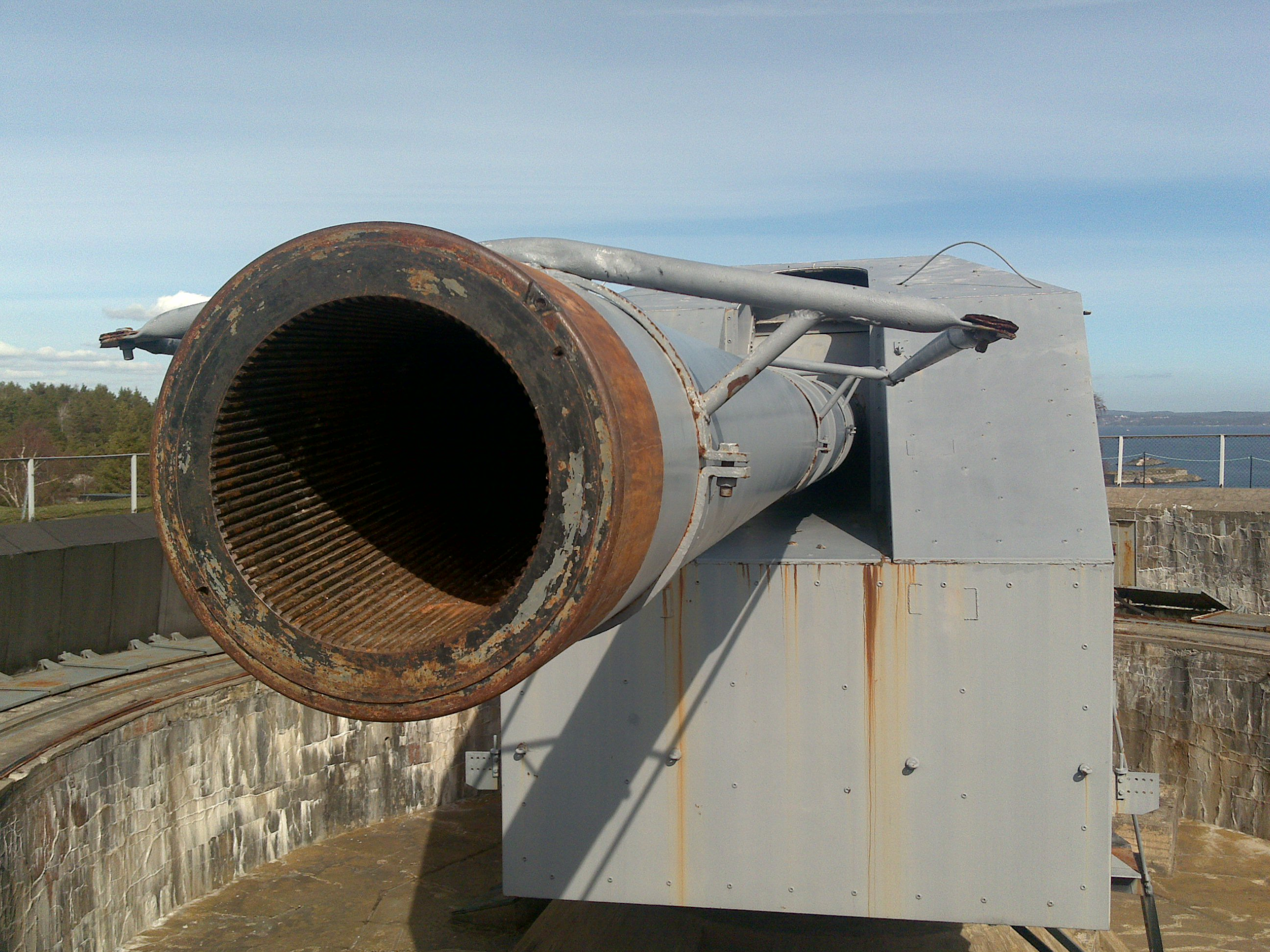 Krupp 38 cm gun at Batterie Vara / Mövik Fort, Kristiansand (Norway).